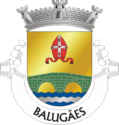 Crest of Balugães, a parish in the municipality of Barcelos (Portugal)